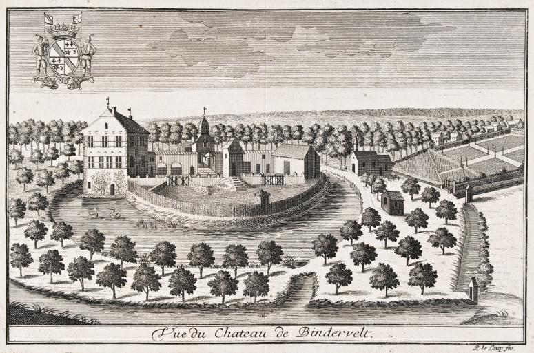 Castellum Bindervelt (Belgium)